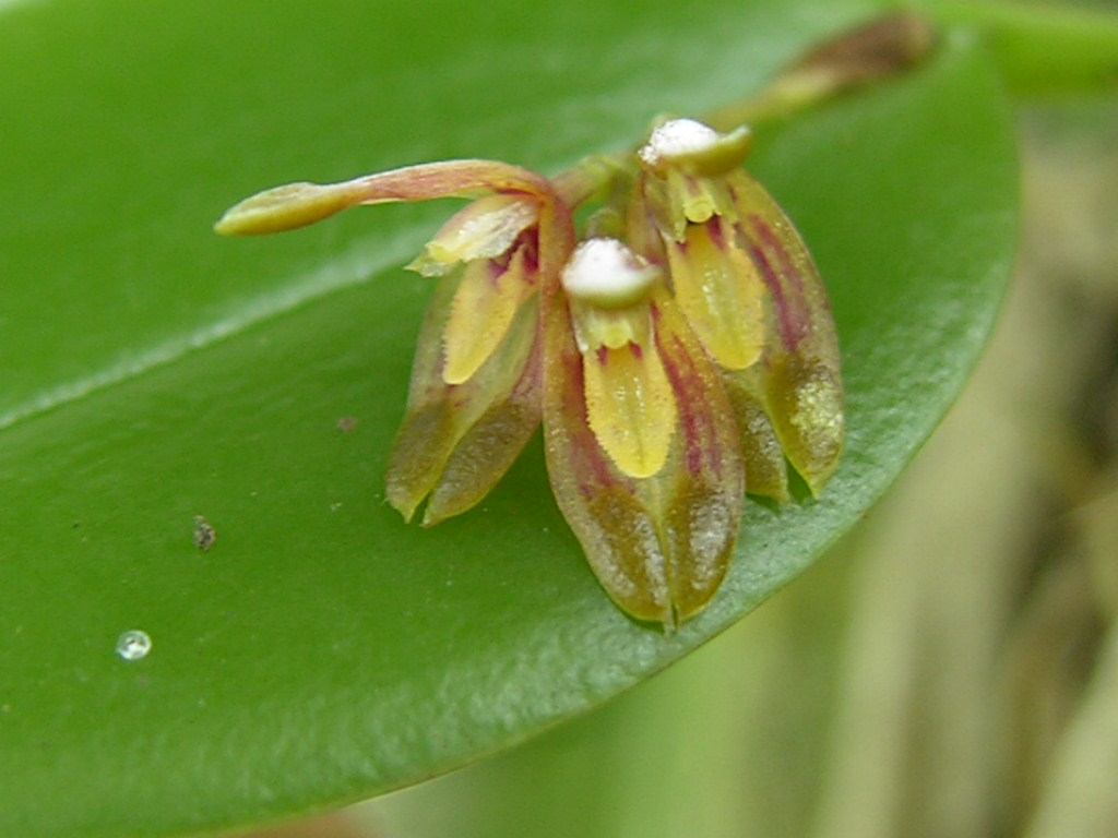 Photos by Americo Docha Neto & Dalton Holland Baptista for Orchidstudium